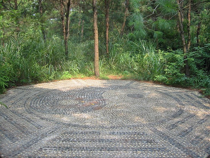 A Yin & Yang symbol surrounded by the 'ba gua' in a park outside of Nanning, Guangxi province.